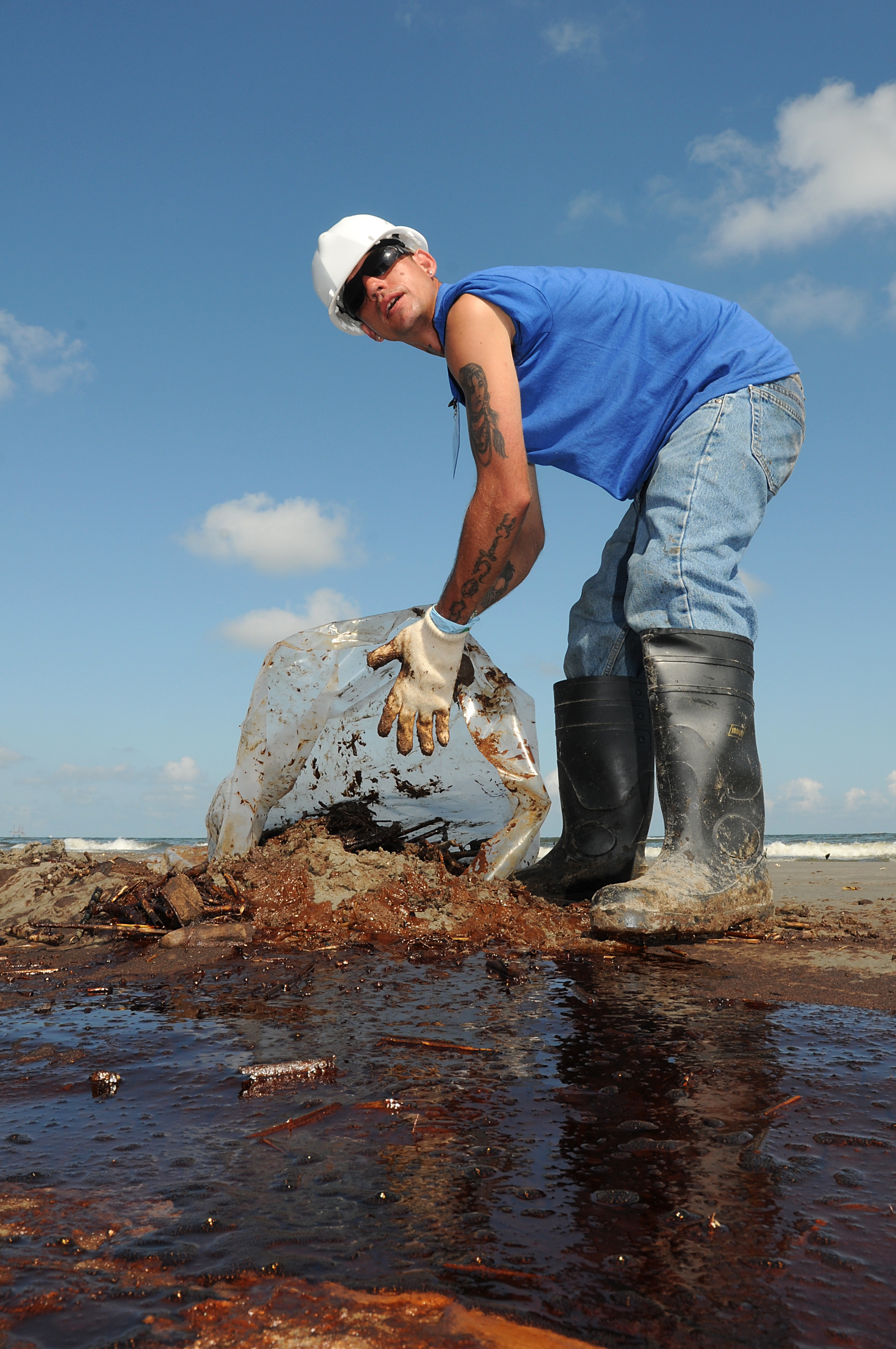 A worker cleans up oily waste on Elmer's Island just west of Grand Isle, La., May 21, 2010. Hundreds of workers are cleaning up oil from the damaged Deepwater Horizon wellhead that reached the shore a month after the ultra-deepwater oil rig exploded, killing 11 people.